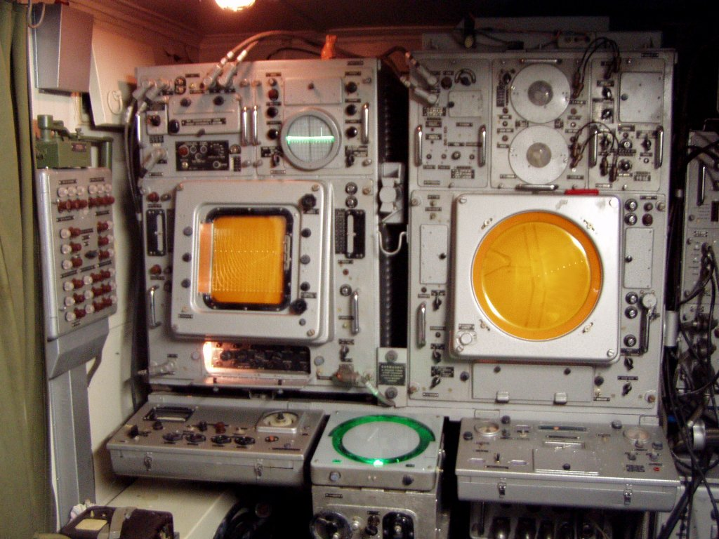 The radarindicators of the russian radar „Spoon Rest B”. Left an e-scope, right an PPI-scope. A goniometer is located between the scopes.